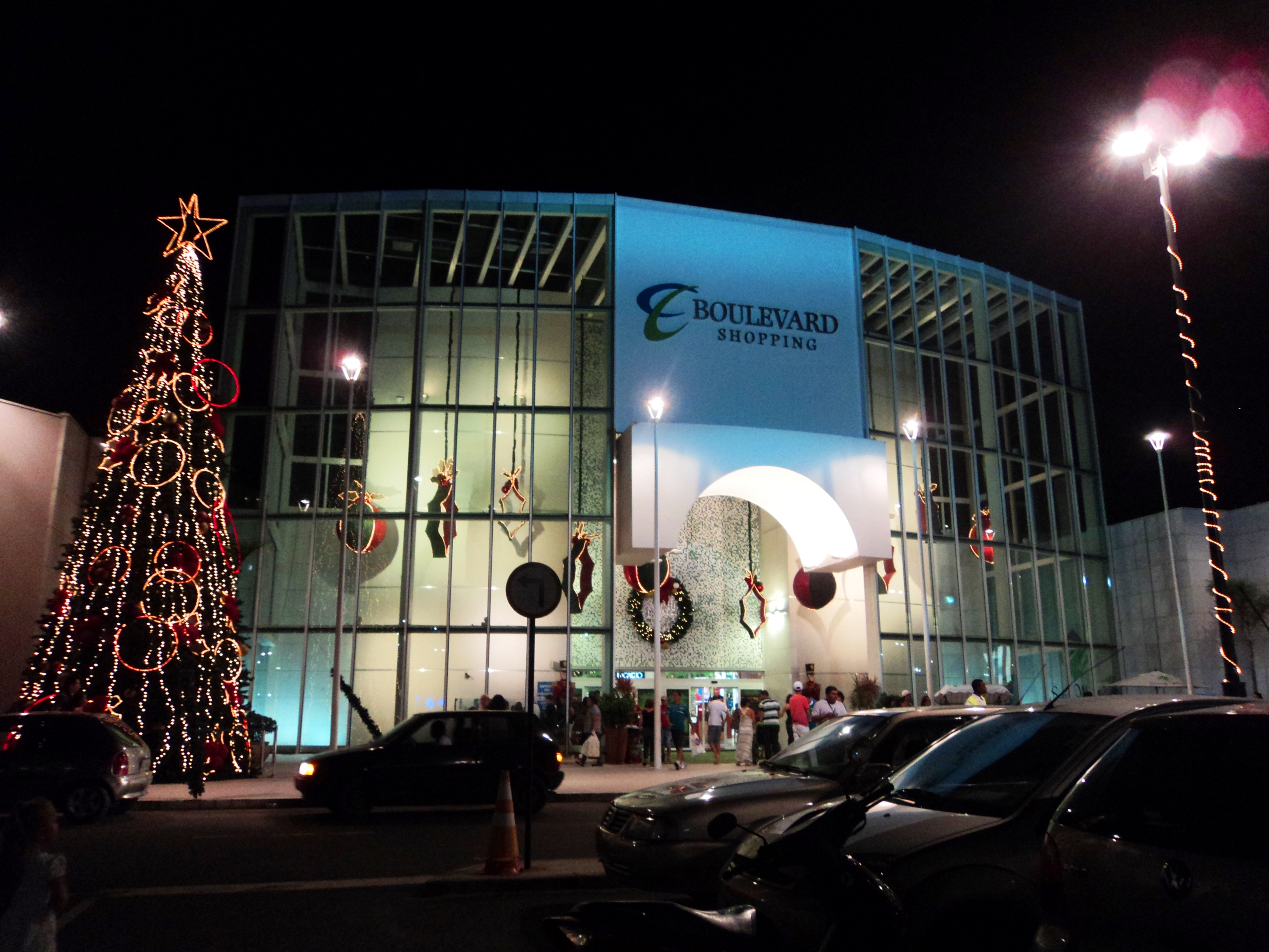 Main entrance of the Shopping Boulevard Campos, in Campos dos Goytacazes, Rio de Janeiro, Brazil.